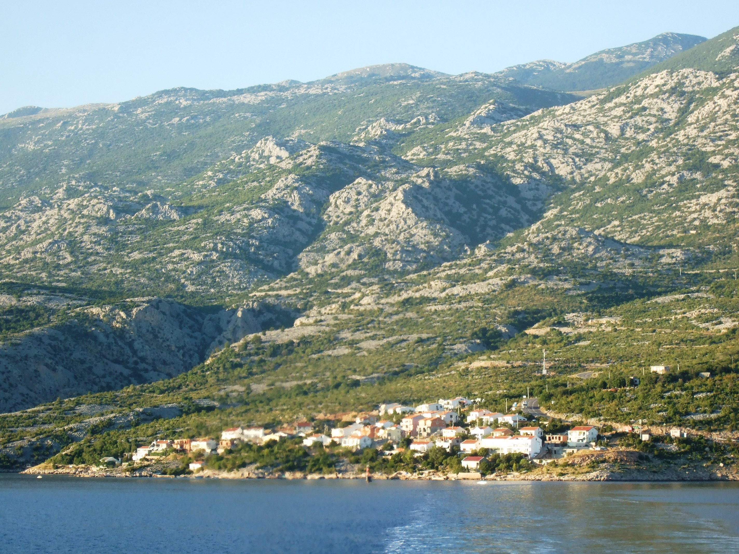 Prizna (Croatia) from the ferry to Žigljen harbor in Pag